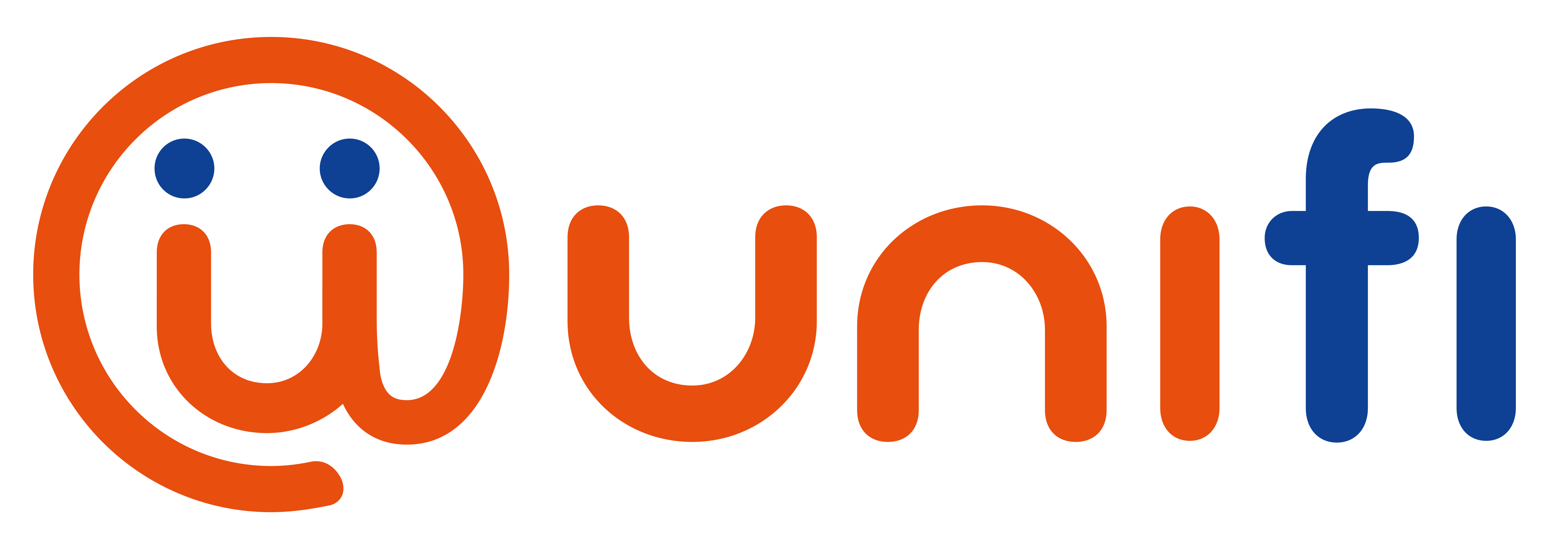 The new unifi logo as of 2017